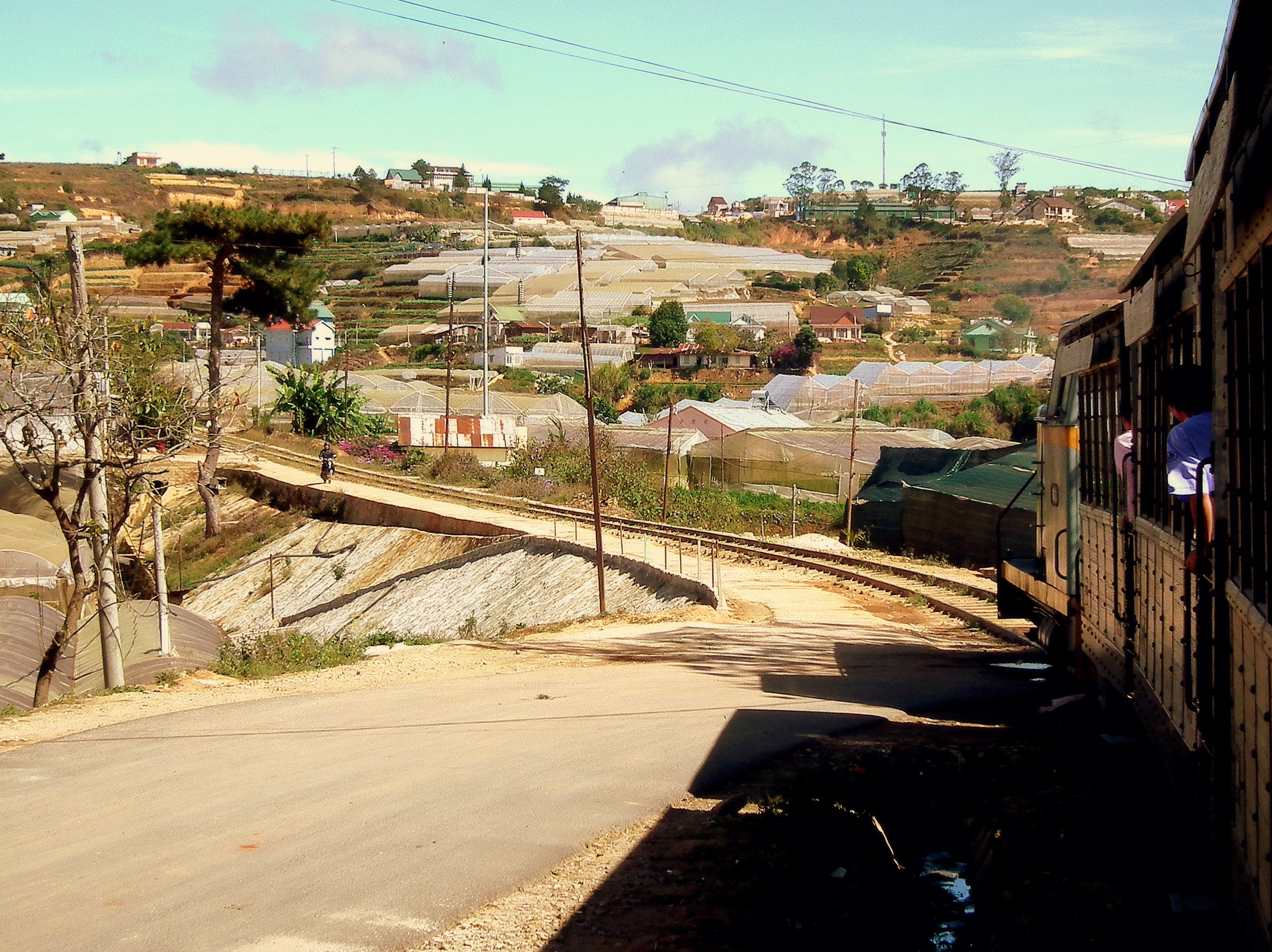 DA LAT PLATEAU RAILWAYS JOUNEY FROM DA LAT TO TRAIMAT TRAIN JOURNEY VIETNAM JAN 2012